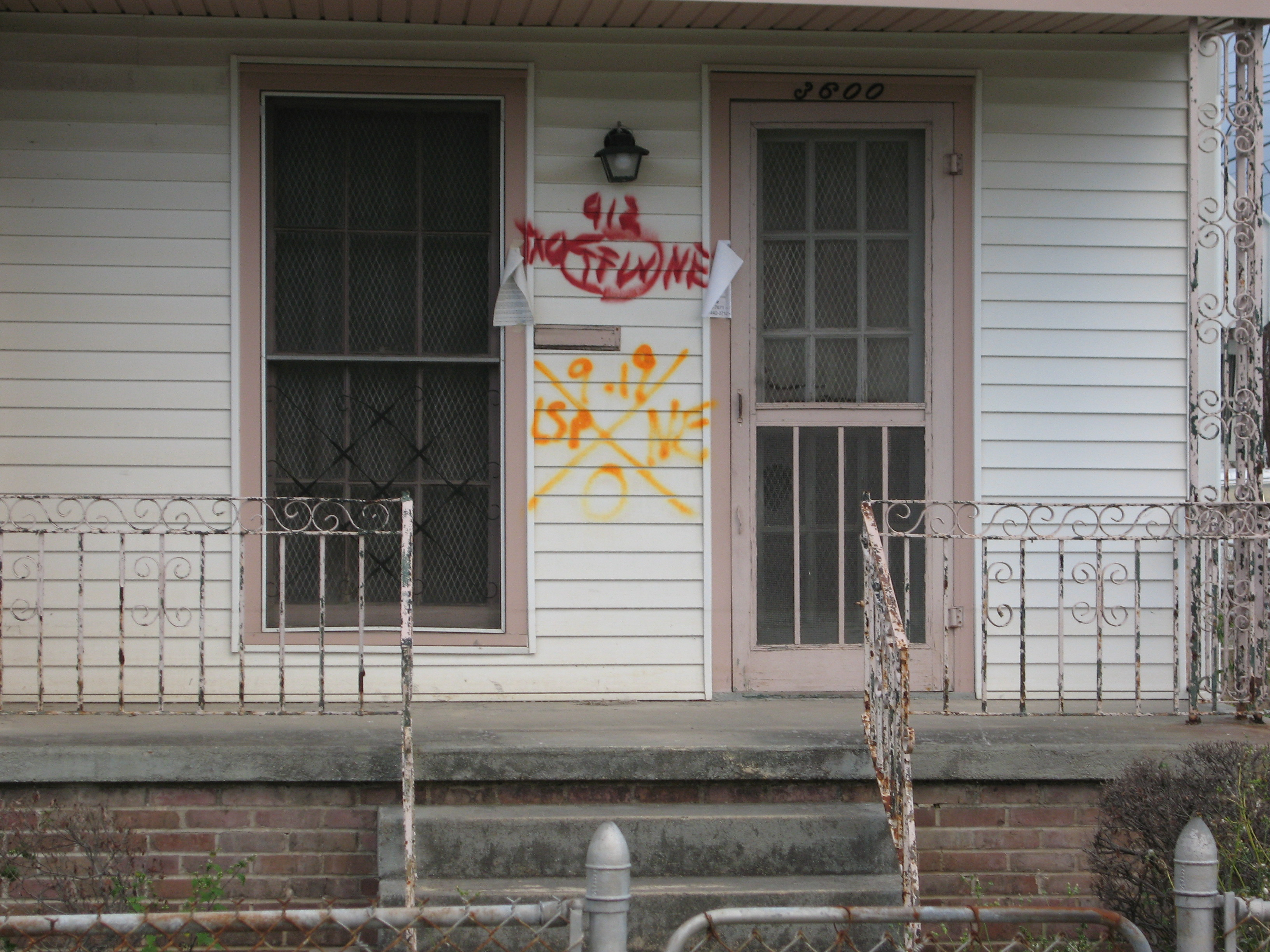 Photo from the lower ninth ward in New Orleans, Louisiana. Represents FEMA's search marking system